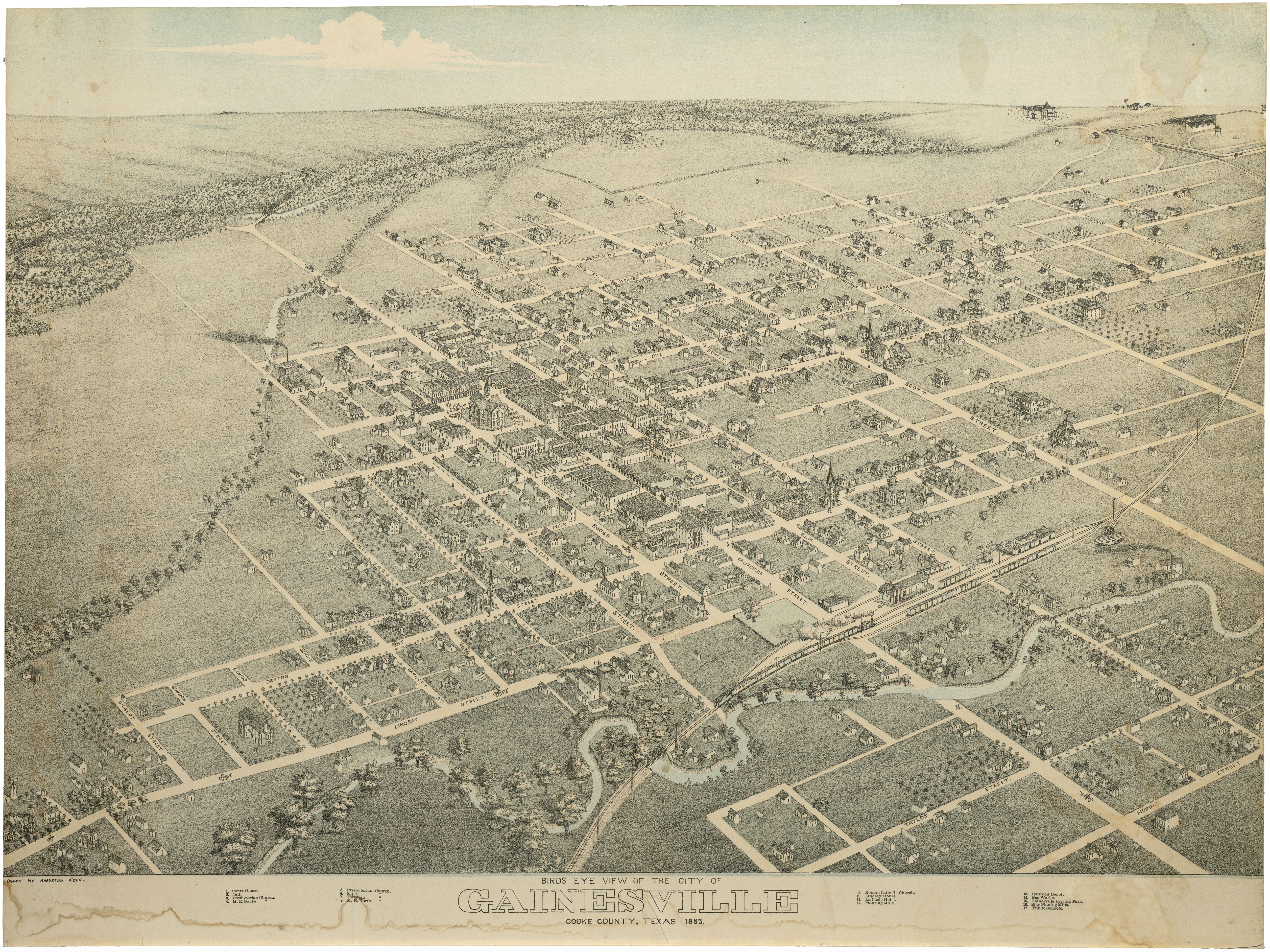 Gainesville, Texas in 1883. Birdrsquos Eye View of the City of Gainesville Cooke County, Texas 1883, 1883. Lithograph, 22.7 x 30 in. Lithographer unknown. Morton Museum of Cooke County, Gainesville.